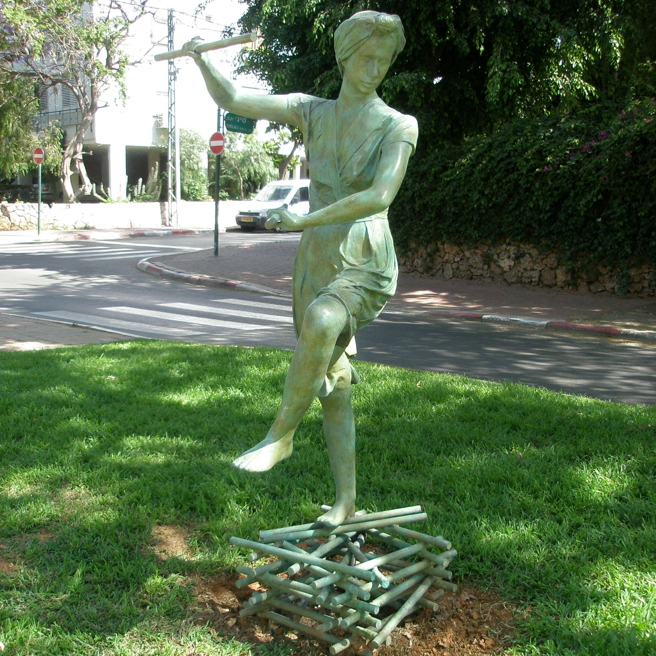 Women with rungs of a ladder by Ofra Zimbalista.